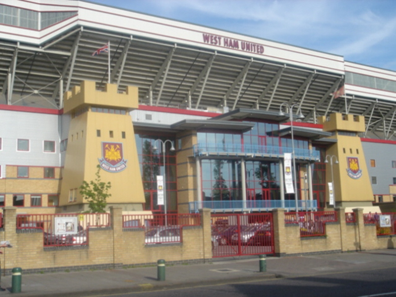 Main entrance and 'twin towers' of West Ham's Dr Marten's stand, Boleyn Ground, Upton Park, London, 2005, taken from Green Street.